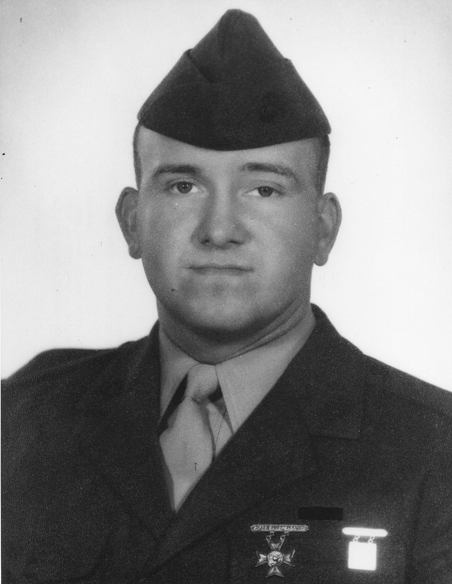 Karl G. Taylor, Sr., USMC; posthumous Medal of Honor recipient, Vietnam War Author: United States Marine Corps Source: Official Marine Corps biography URL